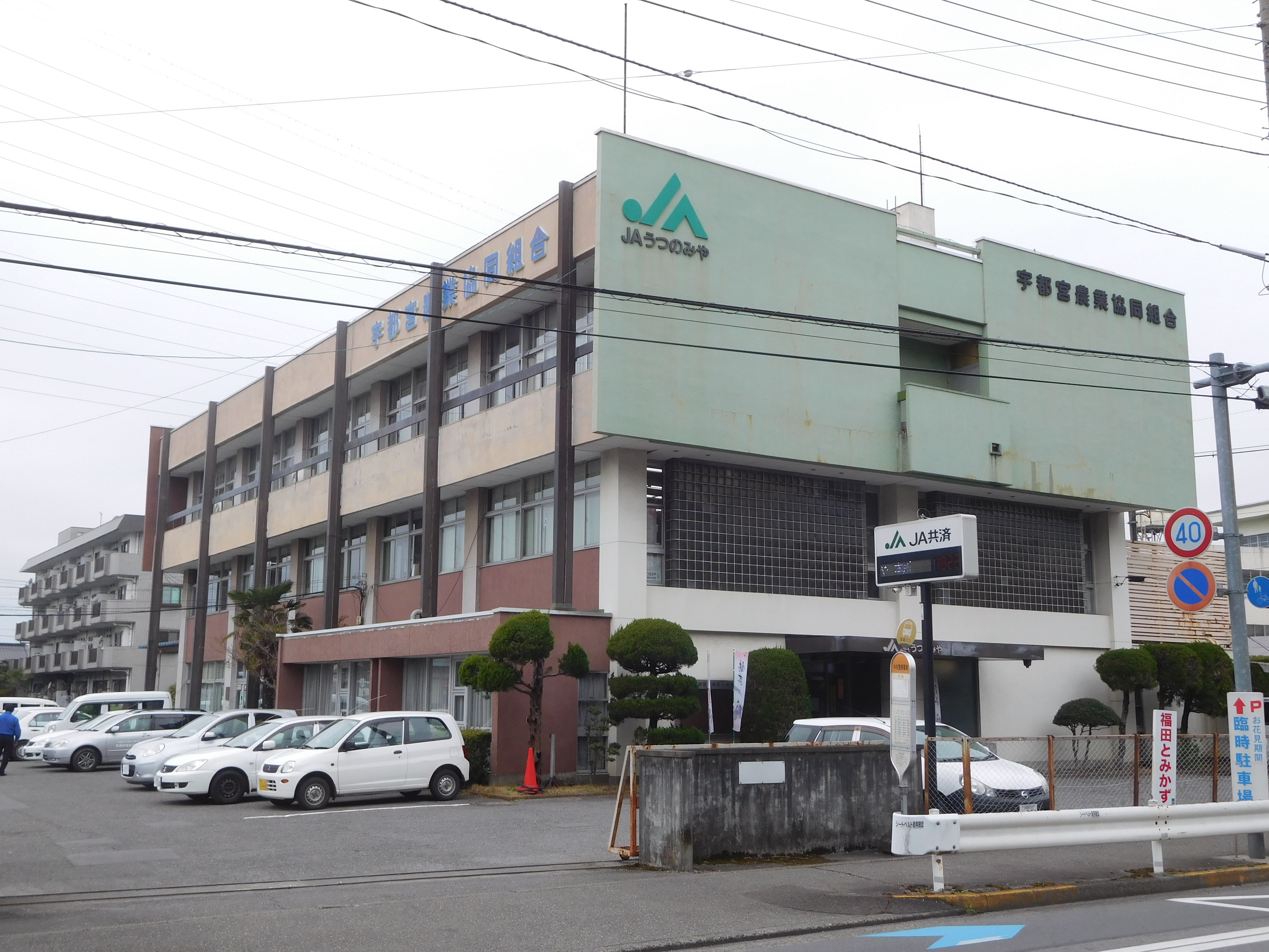 This is the main office of Utsunomiya Agricultural Cooperative in Utunomiya, Tochigi, Japan.